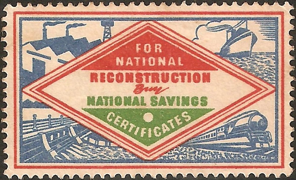 For National Reconstruction Buy National Savings Certificates publicity stamp. Circa the end of World War II.